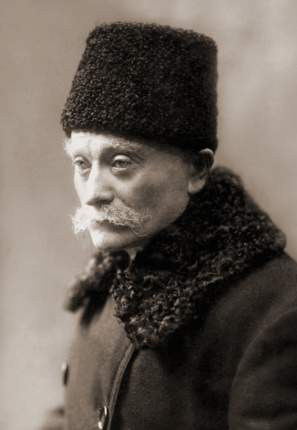 Ukrainian writer and poet Ivan Franko (1856-1916)